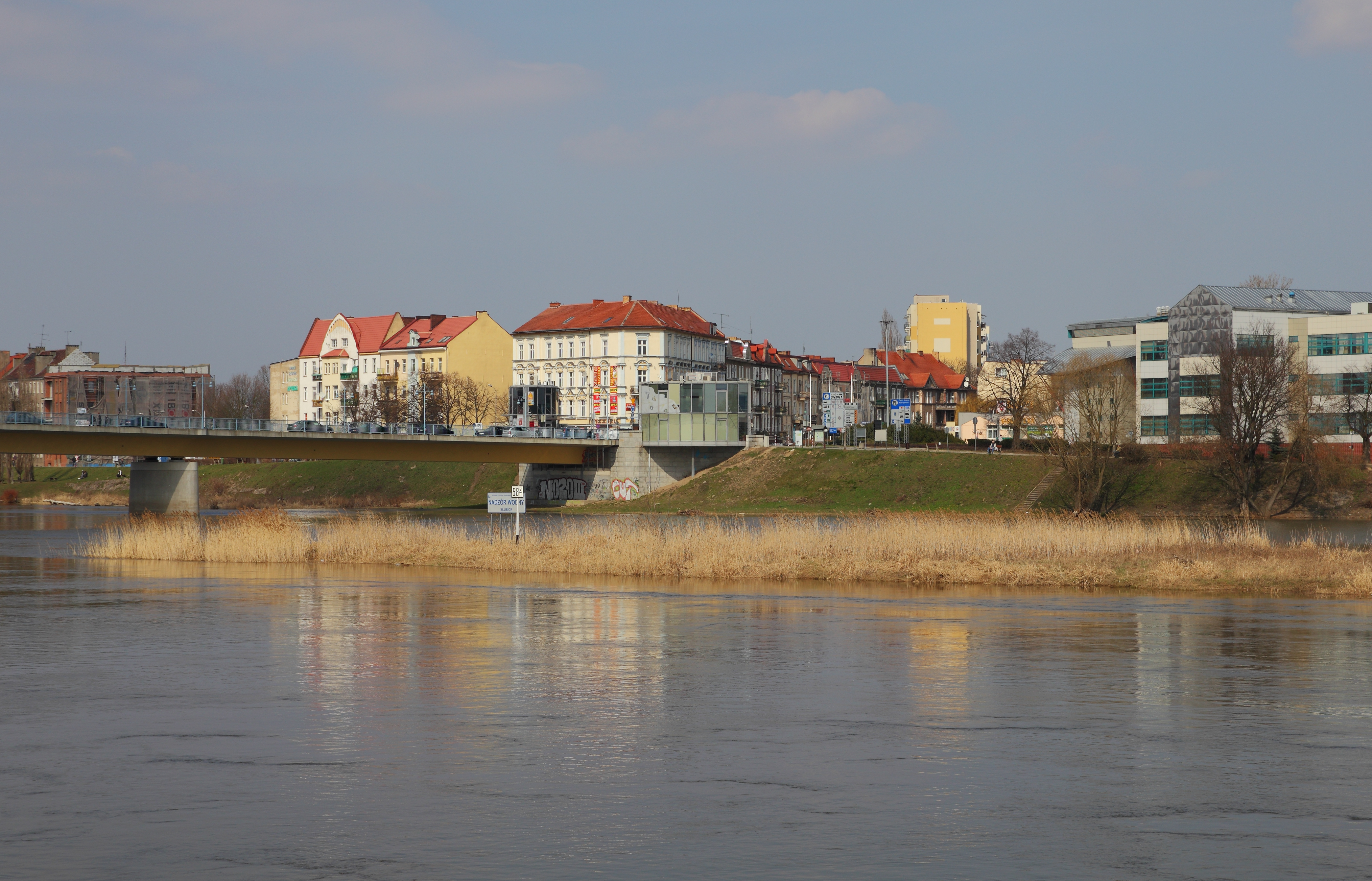 View to Poland from Frankfurt (Oder), Brandenburg, Germany